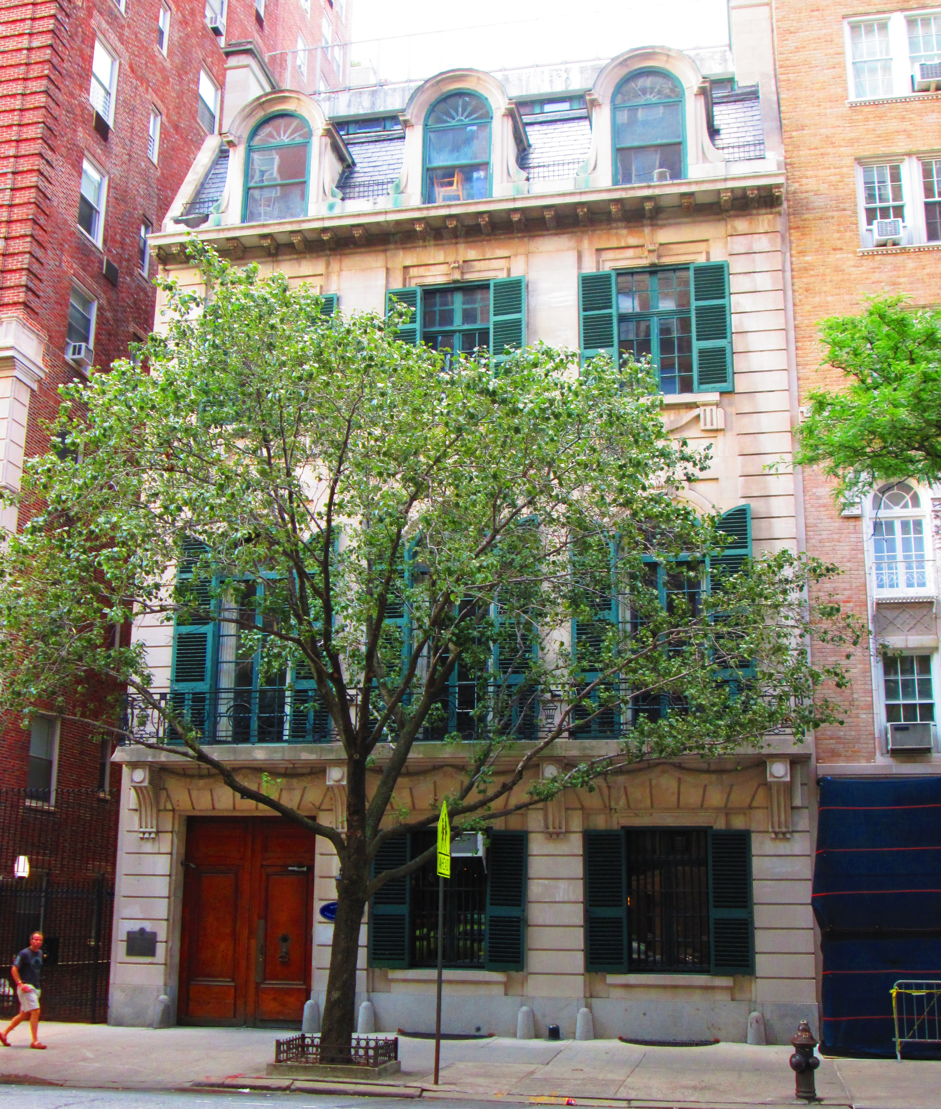 7 East 96th Street between Fifth and Madison Avenue on the border between the Carnegie Hill and East Harlem neighborhoods of Manhattan, New York City, was built in 1912-13 as the Ogden Codman, Jr. House, and was designed by Codman. It is now the Manhattan Country School. (Source AIA Guide to NYC (5th ed.))